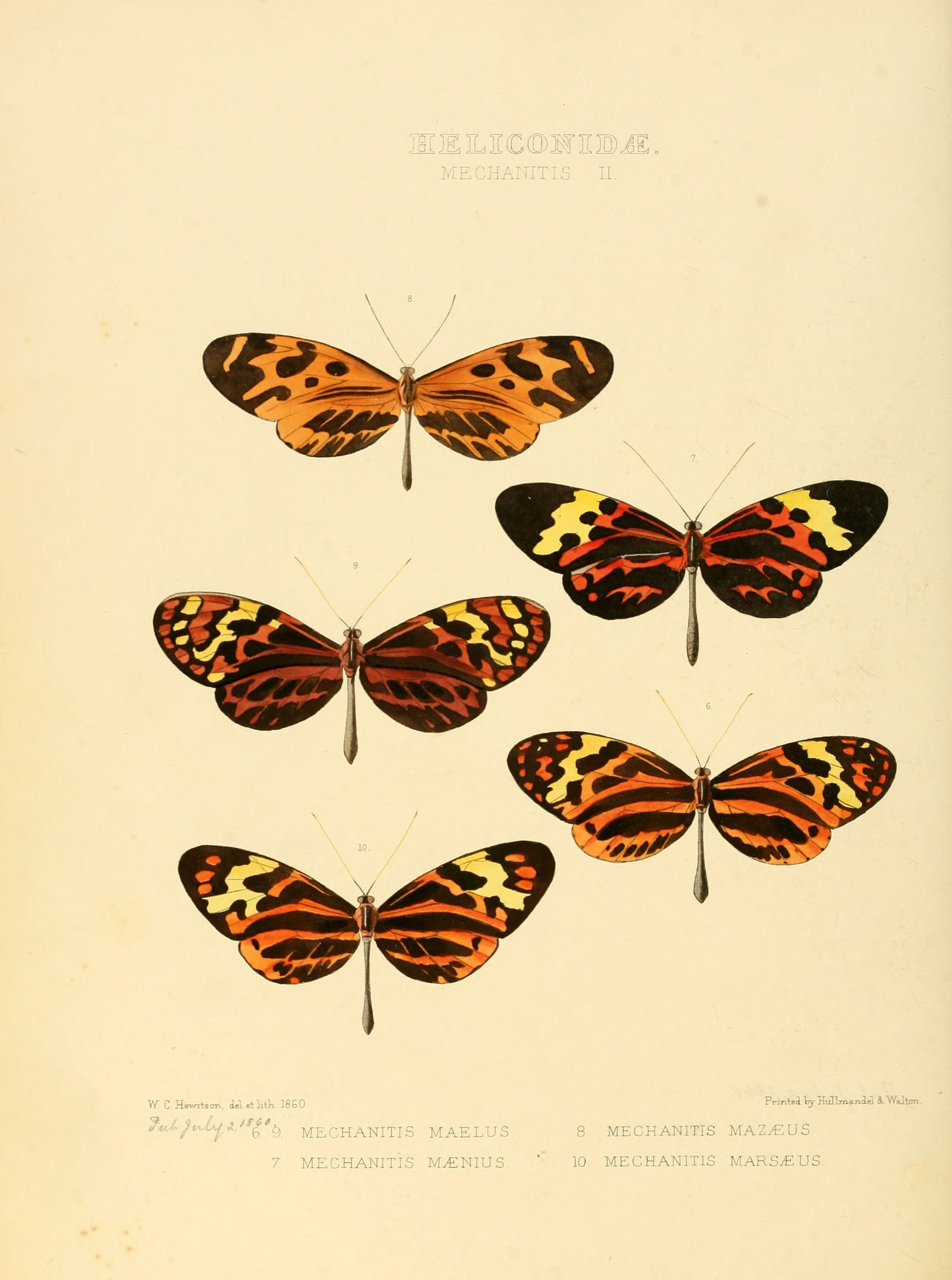 Plate: Mechanitis II Mechanitis maelus. Figs. 6 (var.), 9 (female). Accepted as Melinaea satevis (Doubleday, 1847). Mechanitis mænius. Fig. 7. Accepted as Melinaea menophilus (Hewitson, 1856). Mechanitis mazæus. Fig. 8. Accepted as Mechanitis mazaeus Hewitson, 1860. Mechanitis marsæus. Fig. 10. Accepted as Melinaea marsaeus (Hewitson, 1860).